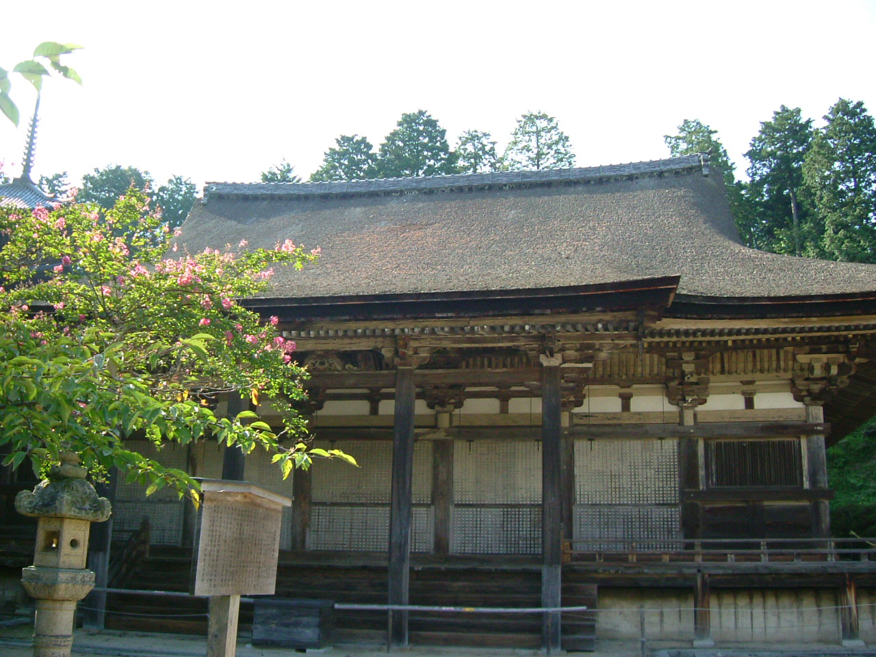 photo of Jorakuji main temple(Japanese national treasure)